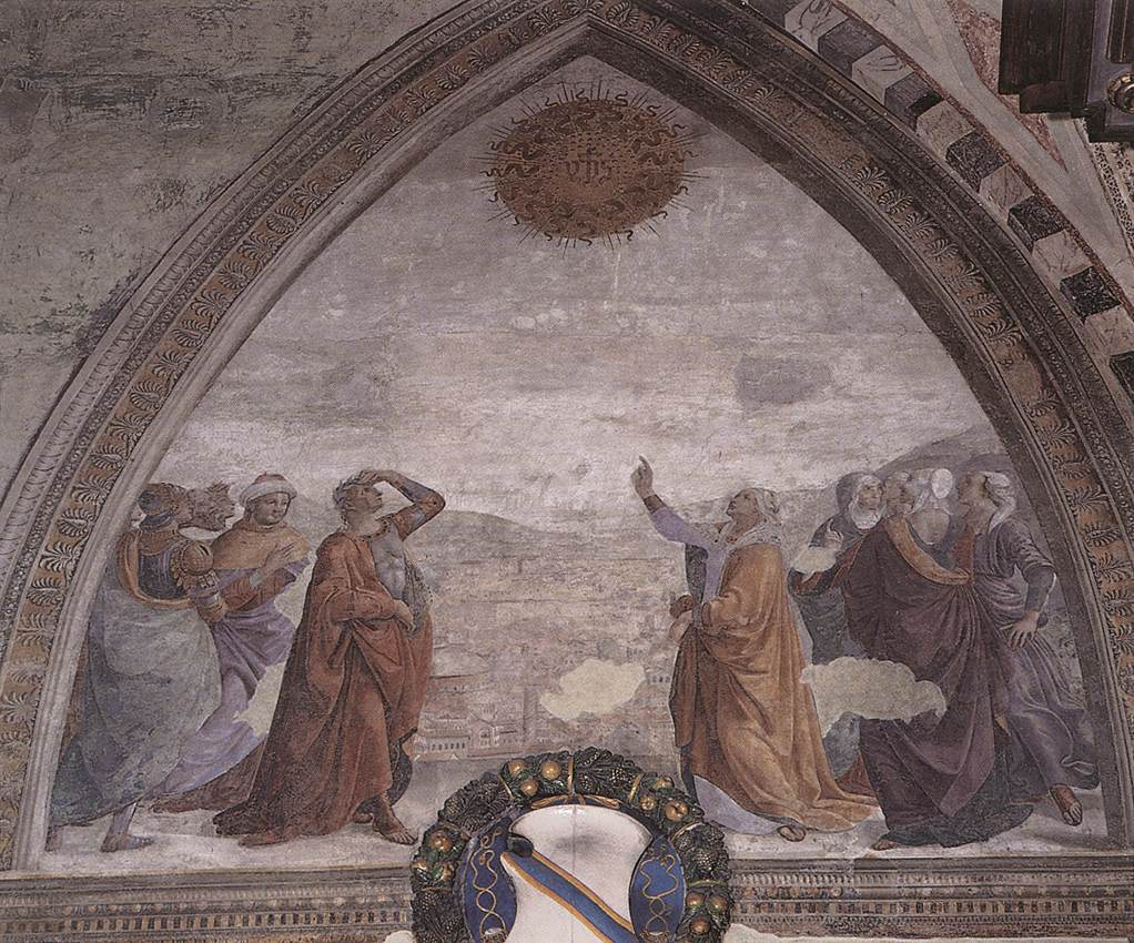 Meeting of Augustus and the Sibyl c. 1485 Fresco Santa Trinità, Florence